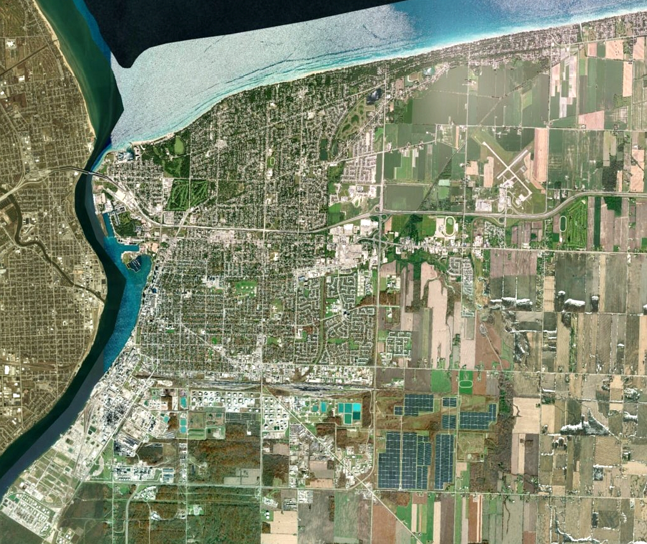 Sarnia, Ontario satellite image.